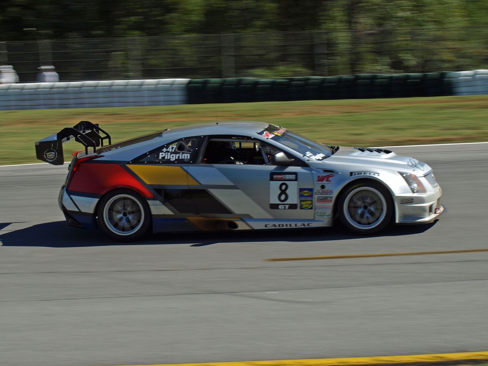 Andy Pilgrim's GT-class Cadillac CTS-V during the Pirelli World Challenge race at the 2011 Petit Le Mans weekend at Road Atlanta.